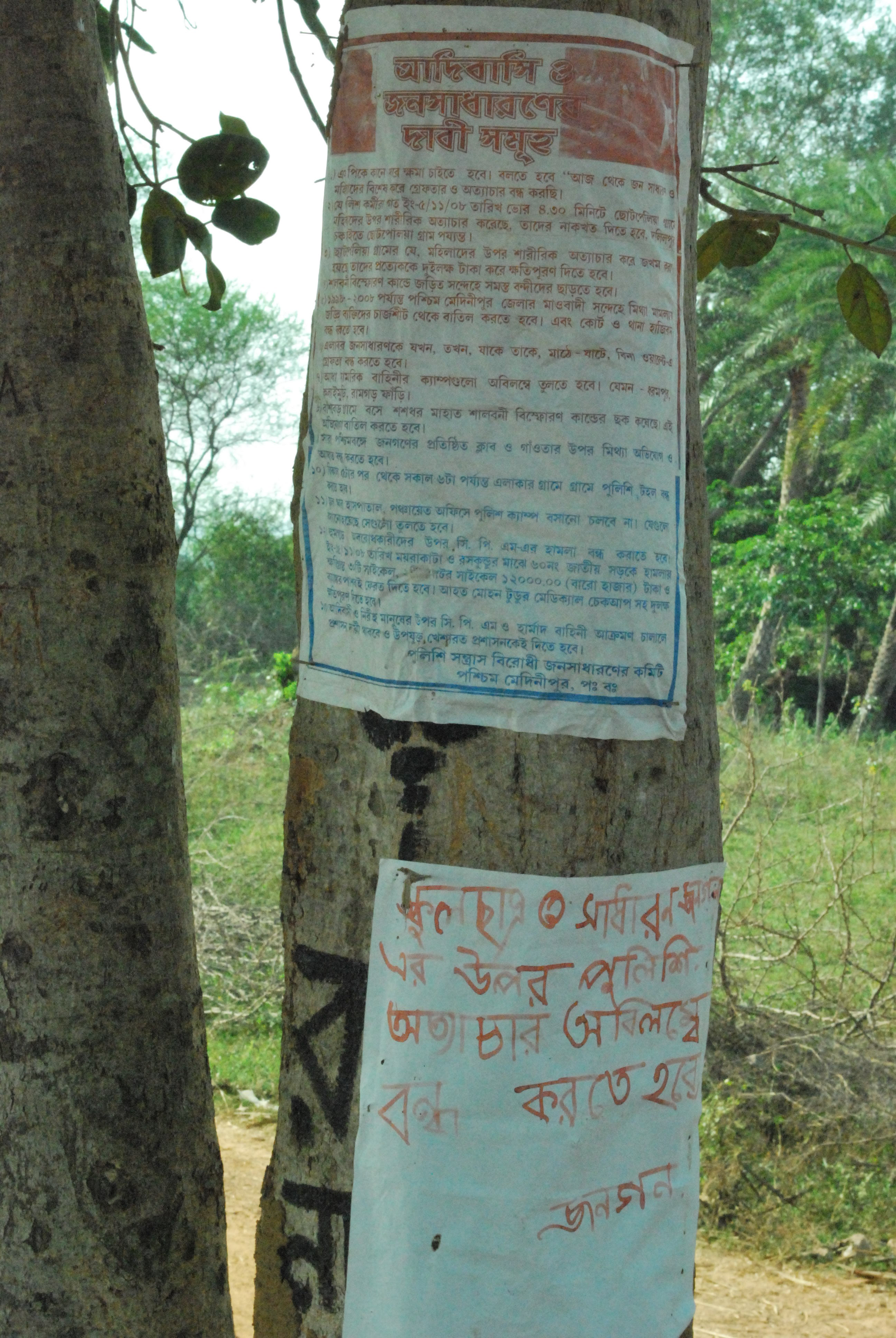 The Lalgarh Adivasis placed 13 demands to the government.